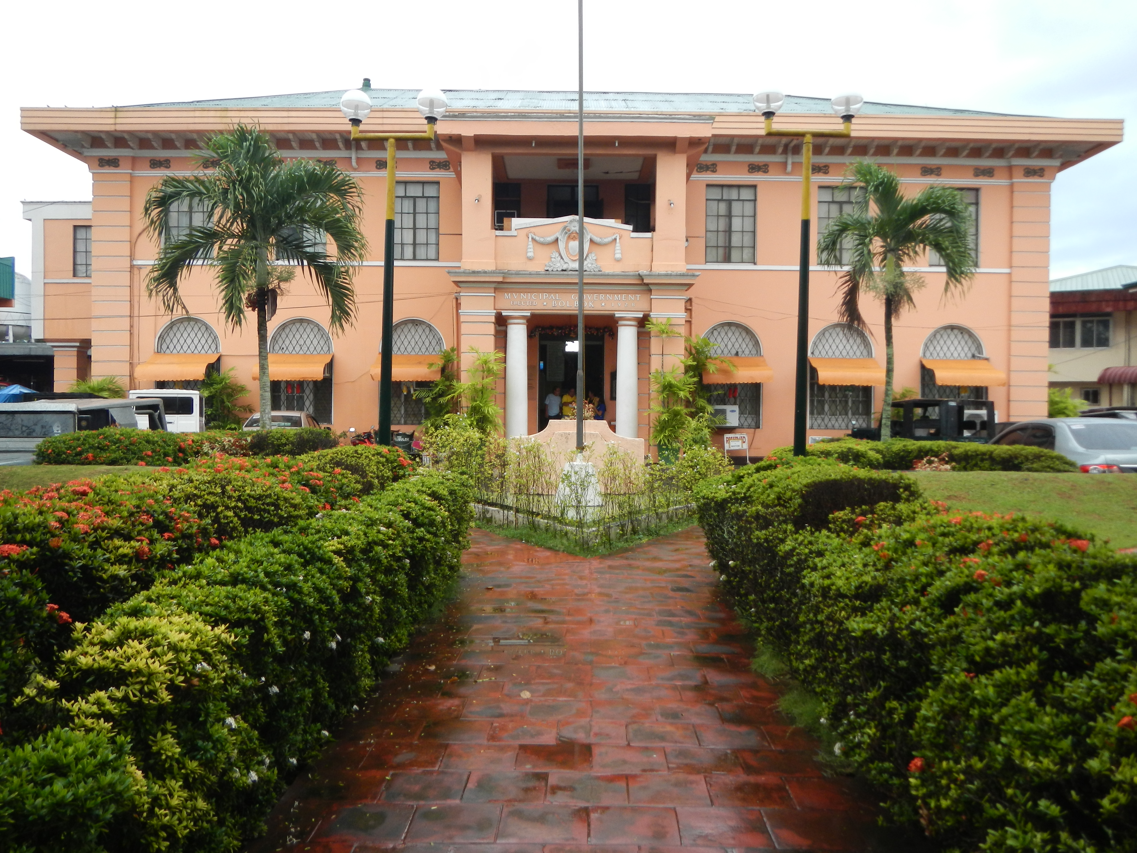 Upload Wizard photos of - San Juan Municipal Hall Complex, Offices and important attractions, Poblacion San Juan [1] -Coordinates: 13°49'30"N 121°23'47"E San Juan, Batangas[2] (a first class municipality on the Philippines in the province of Batangas; the 2010 census, it has a population of 94,291 people politically subdivided into 42 barangaysWebsite attraction is Acautico Resort in Laiya [3]). Upload Wizard photos of - San Juan Municipal Hall Complex, Offices and important attractions, Poblacion San Juan [4] -Coordinates: 13°49'30"N 121°23'47"E San Juan, Batangas[5] (a first class municipality on the Philippines in the province of Batangas; the 2010 census, it has a population of 94,291 people politically subdivided into 42 barangaysWebsite attraction is Acautico Resort in Laiya [6]).